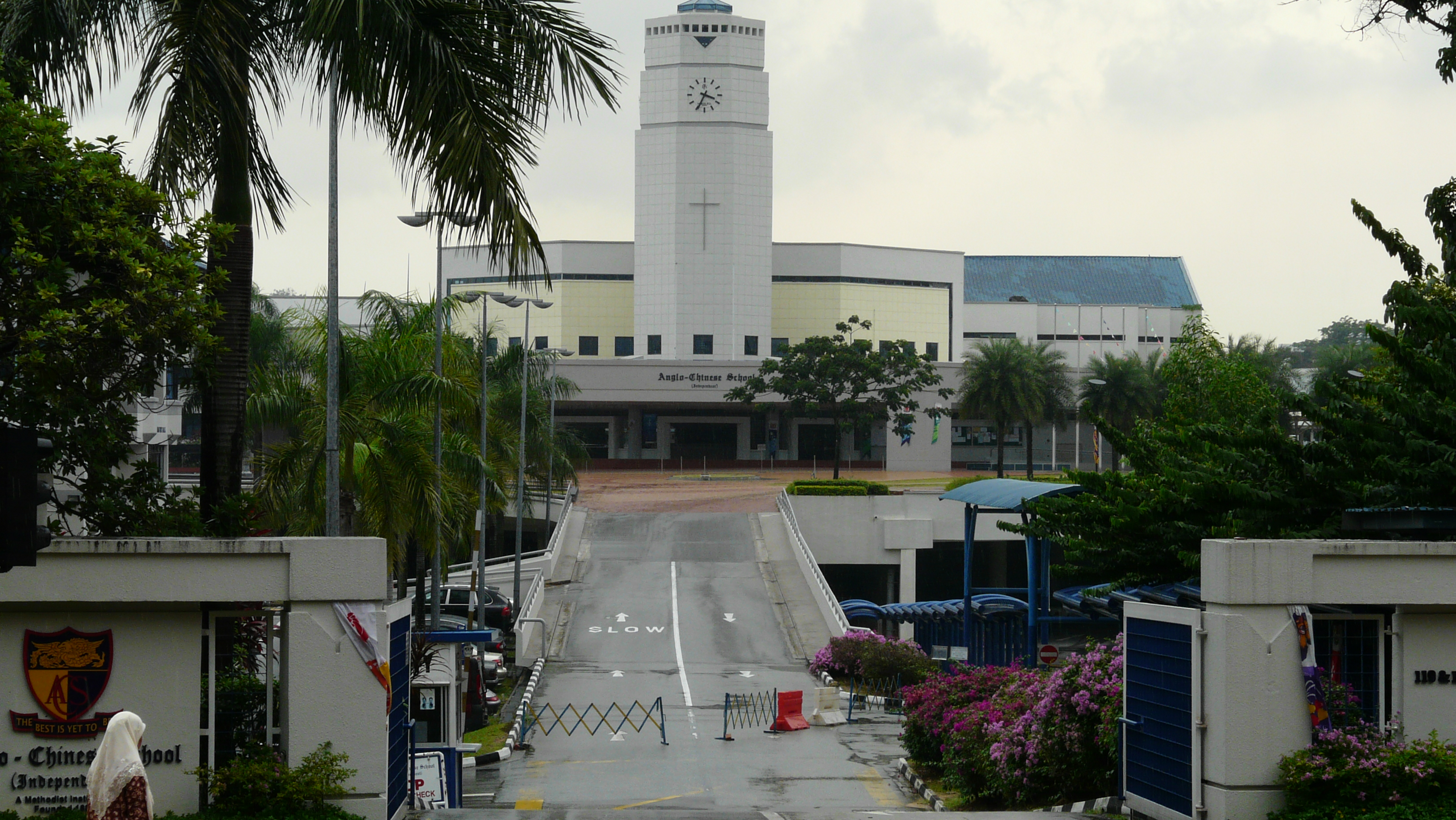 Anglo-Chinese School Independent Clock Tower